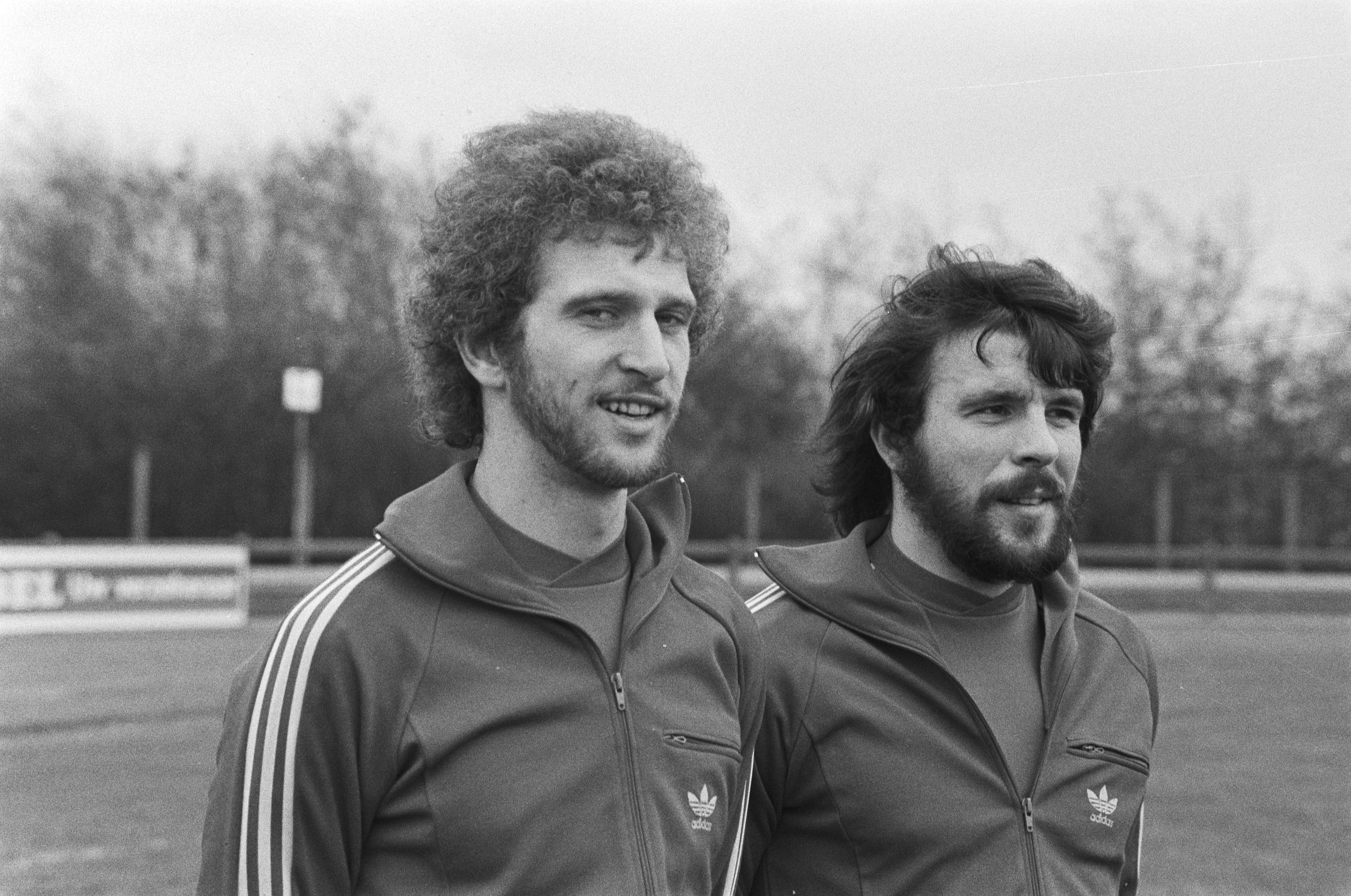 Ludo Coeck (left) and Eric Gerets during a training of the Belgian national football team.